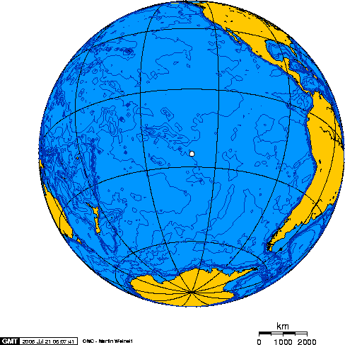 Orthographic projection centred over Pitcairn Island